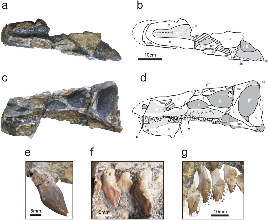 Skull in dorsal (a and b, photograph and drawing respectively), and left lateral (c and d, photograph and drawing respectively) views. (e) Premaxillary tooth; (f,g) maxillary teeth (g inverted). amf, anterior maxillary fossa; aof, antorbital fossa; aso, anterior supraorbital; d, dentary; ef, elliptical fossa; f, foramina; fr, frontal; ift, infratemporal fenestra; j, jugal; mx, maxilla; n, nasals; o, orbit; pd, predentary; pdb, postdentary bones; pmx, premaxilla; po, postorbital; pso: posterior supraorbital; prf, prefrontal; qj, quadratojugal; sq, squamosal; stf, supratemporal fenestra. 1–7 denticles. The drawings were processed using Adobe Photoshop CS2 Serial Number: 1045-1412-5685-1654-6343-1431.